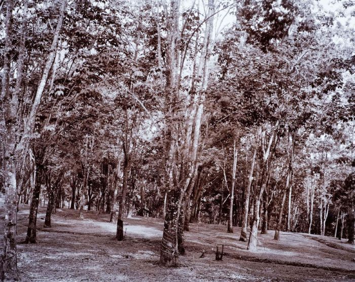 Hevea trees at the 'Pasir Ajoenan' rubber plantation